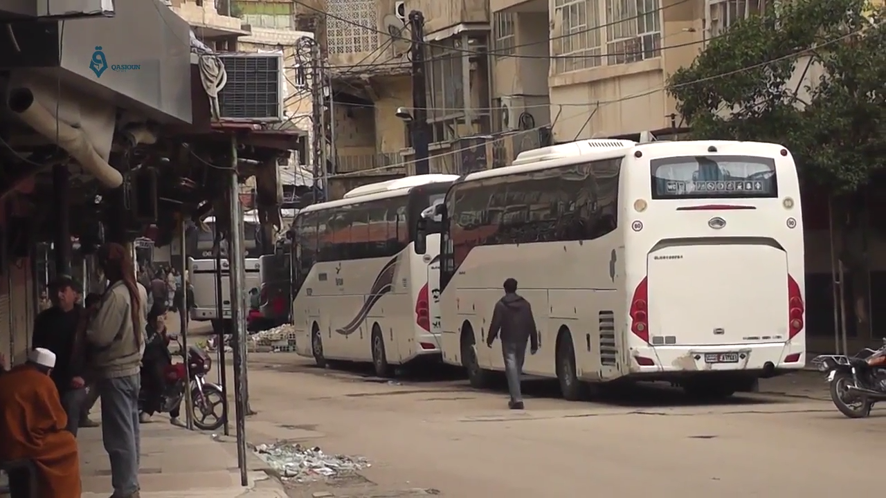 A convoy of buses prepare to transport people out of Madaya, northwest of Damascus, as part of the 2015 Zabadani cease-fire agreement.